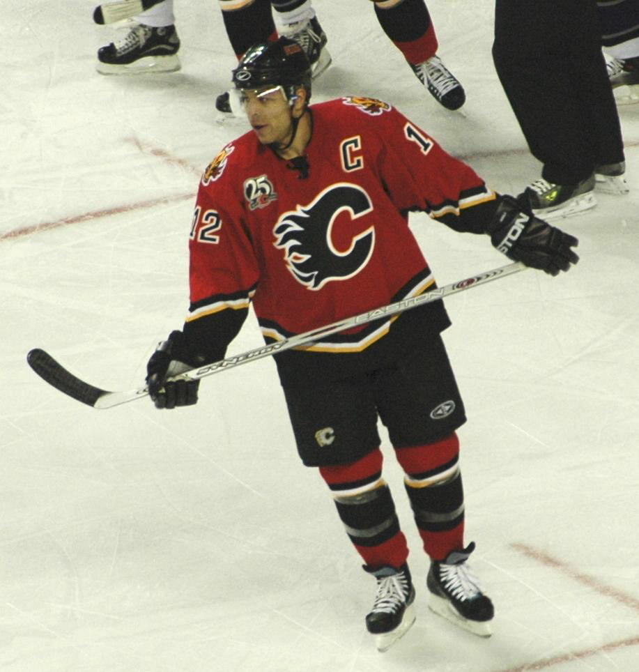 Jarome Iginla of the Calgary Flames, December 21, 2005